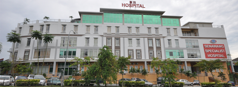 View of SALAM Senawang